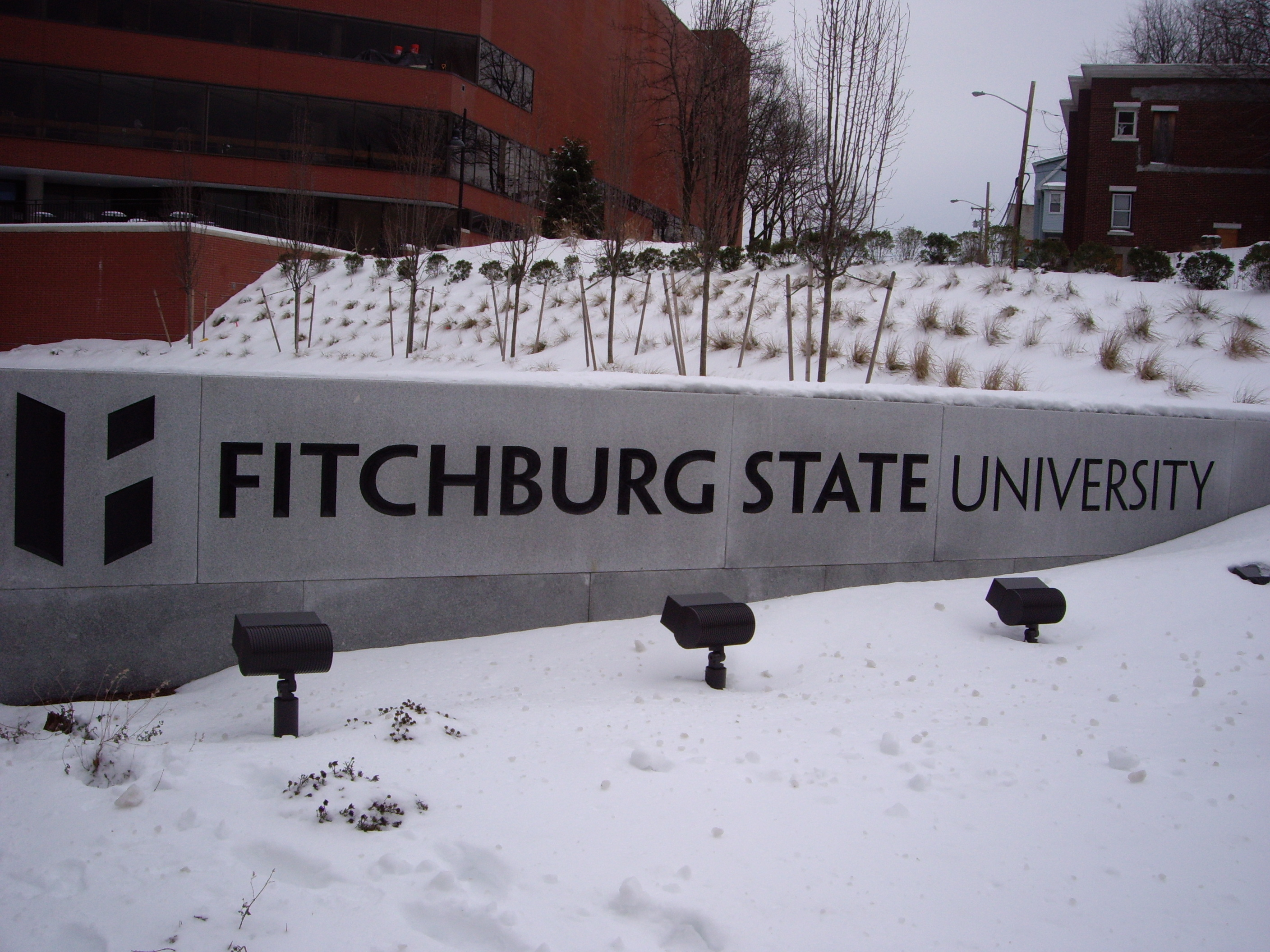 Sing in front of the Hammond Building after renovations at Fitchburg State University